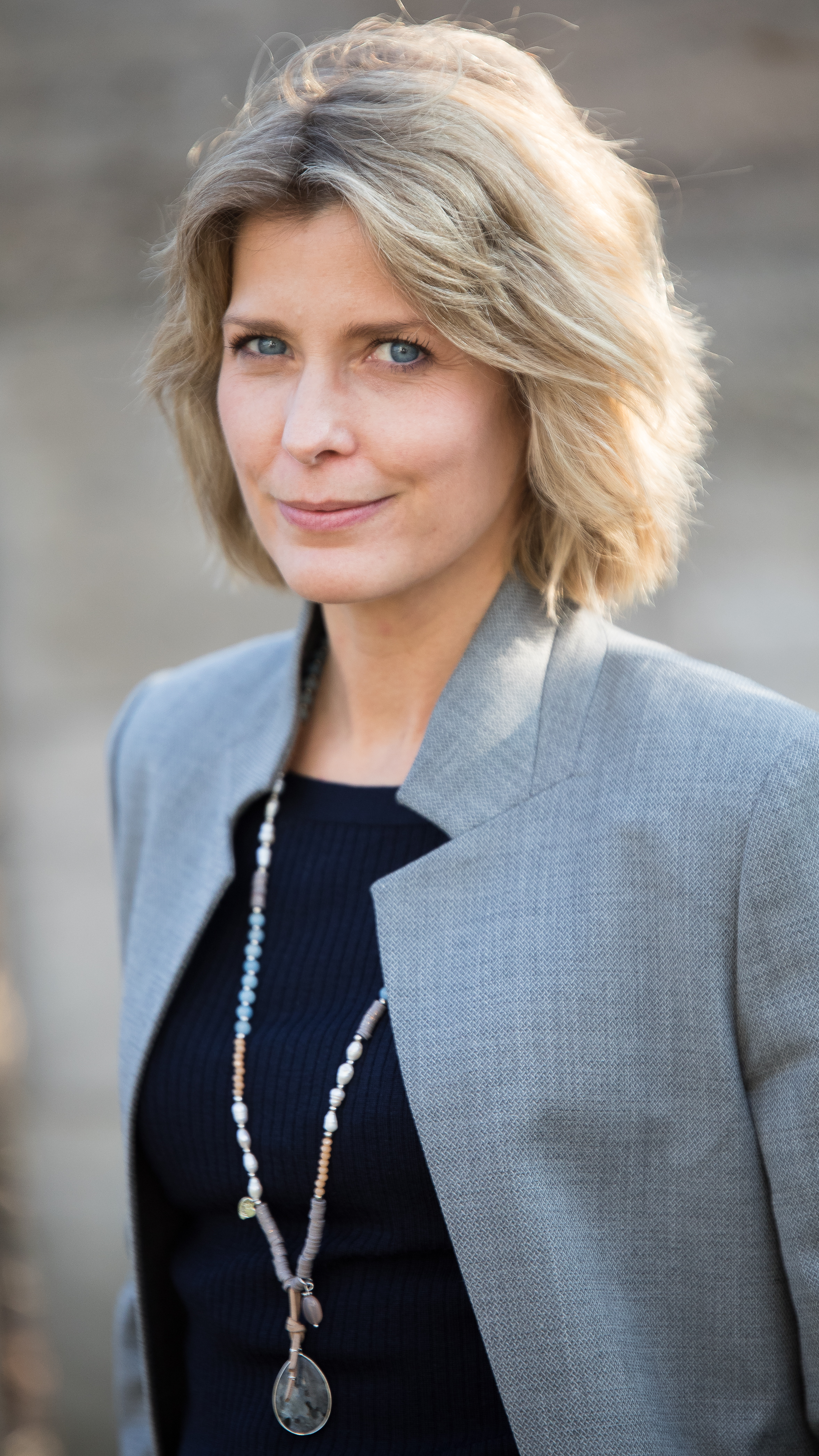 Valerie Niehaus at the reception of the state government of Hesse, Berlinale 2018